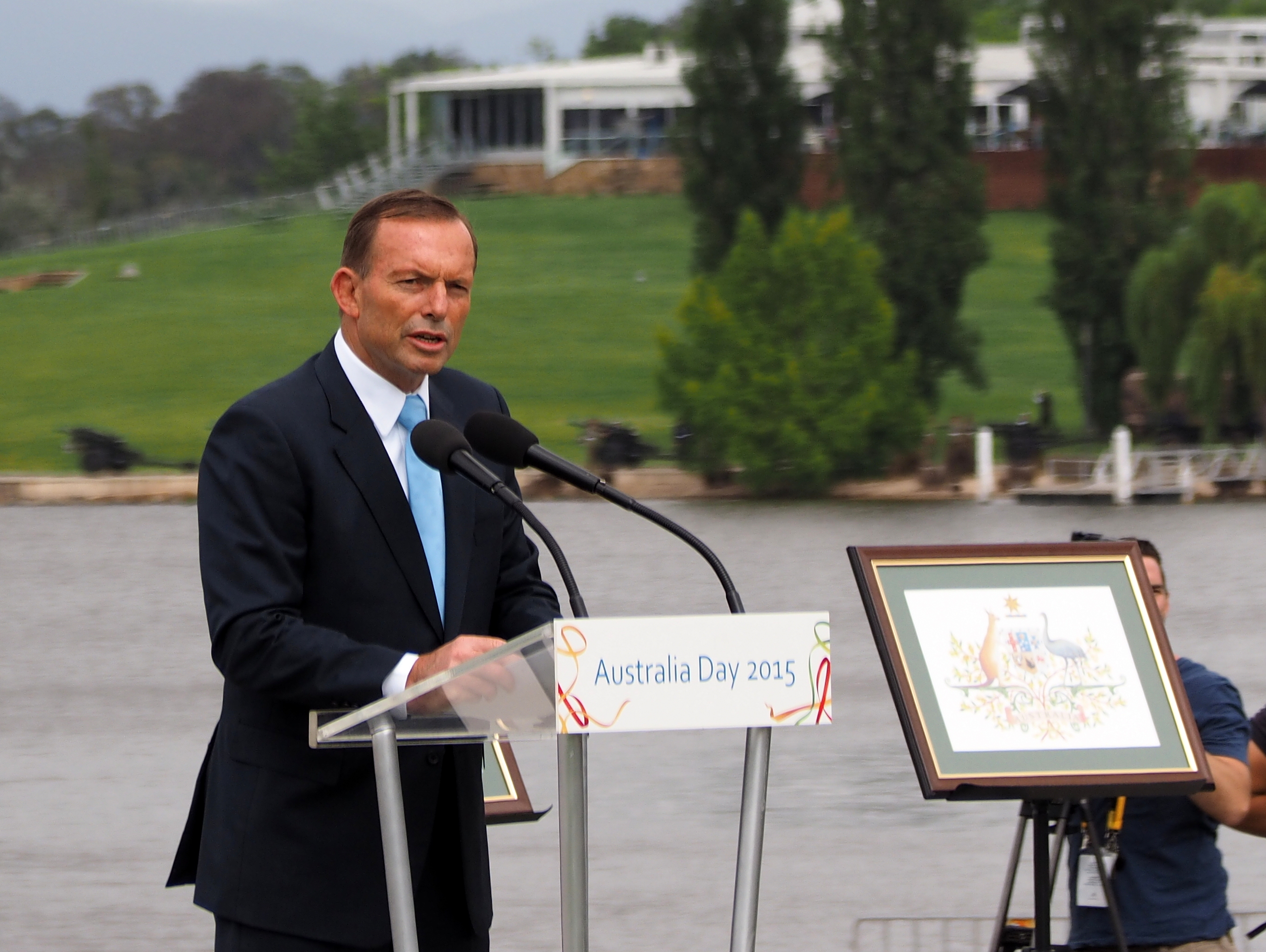 Tony Abbott speaking at the 2015 National Flag Raising and Citizenship Ceremony